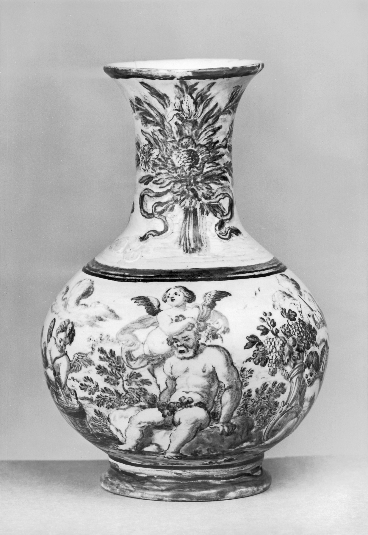 The drunken Silenus, ribald companion of the wine-god Bacchus, is depicted with his attendants crowning him with garlands, carrying cornucopias with grapes, and pressing wine, activities associated with Bacchic ecstasy and appropriate for what was probably a drinking vessel. The image shows the influence of an engraving made more than a century earlier by the artist Annibale Carracci (1560-1609), whose works continued to inspire artists of the succeeding generations.